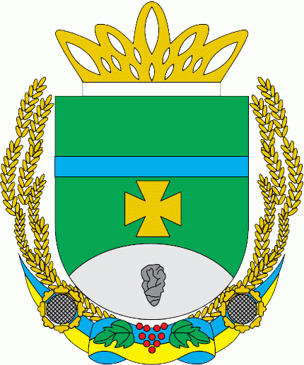 Coat of Arms of Domanivskyi rajon